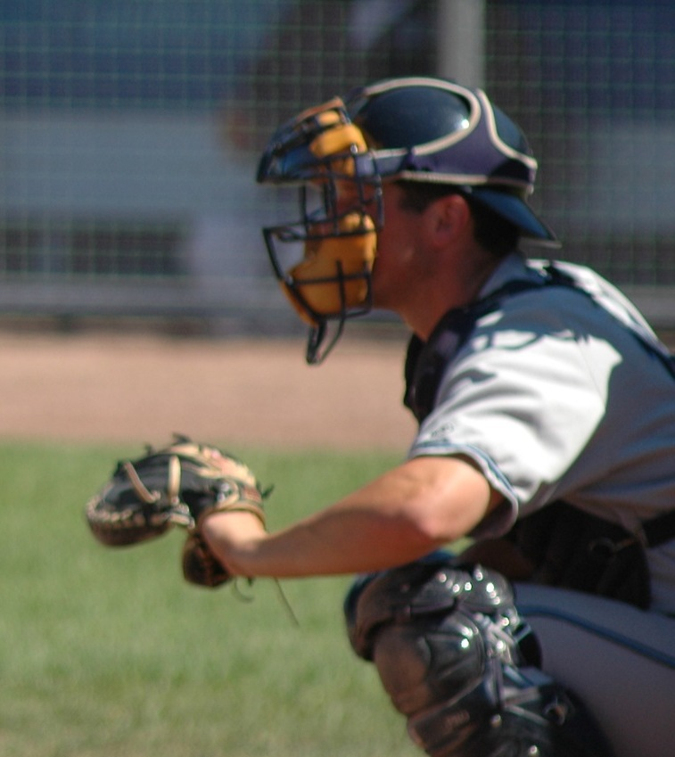 Aaron Mathews bats for the Lansing Lugnuts and Chris Robinson catches for the West Michigan Whitecaps during a baseball game in 2005.